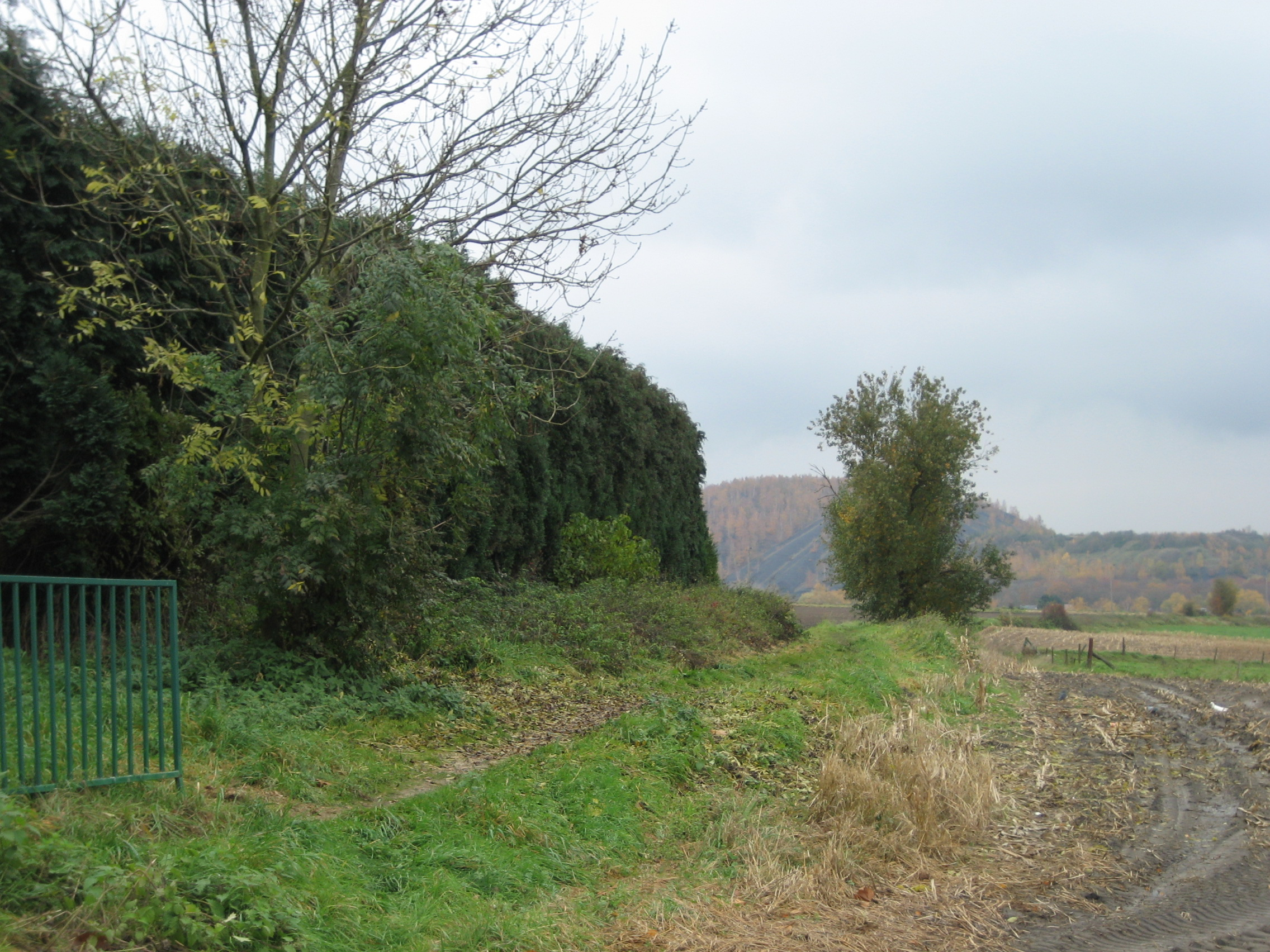 Ligne 268B, Xing Rue Filias Capouillet